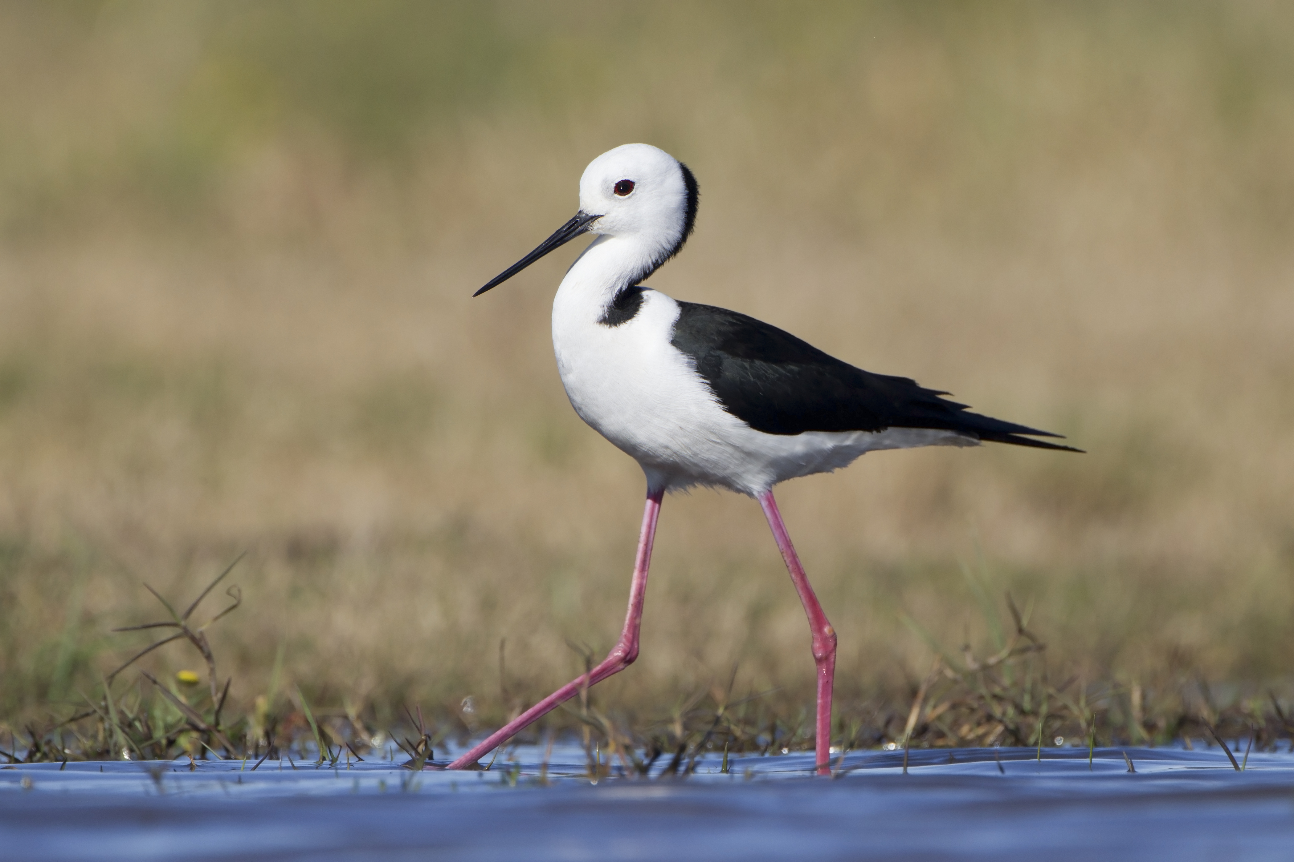 White-headed Stilt (Himantopus leucocephalus), Hexham Swamp, Newcastle, New South Wales, Australia